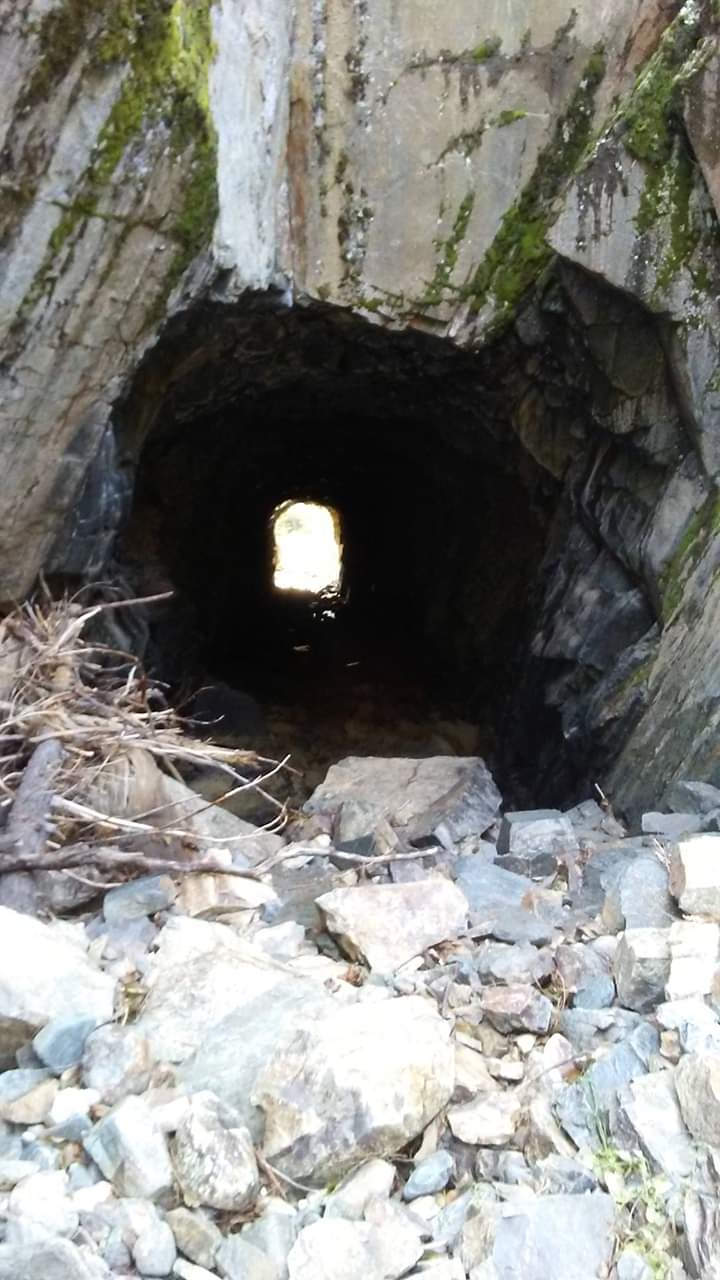 This hole was used to divert the water in the slate creek for gold mining. This is located off of st louis road La Porte California